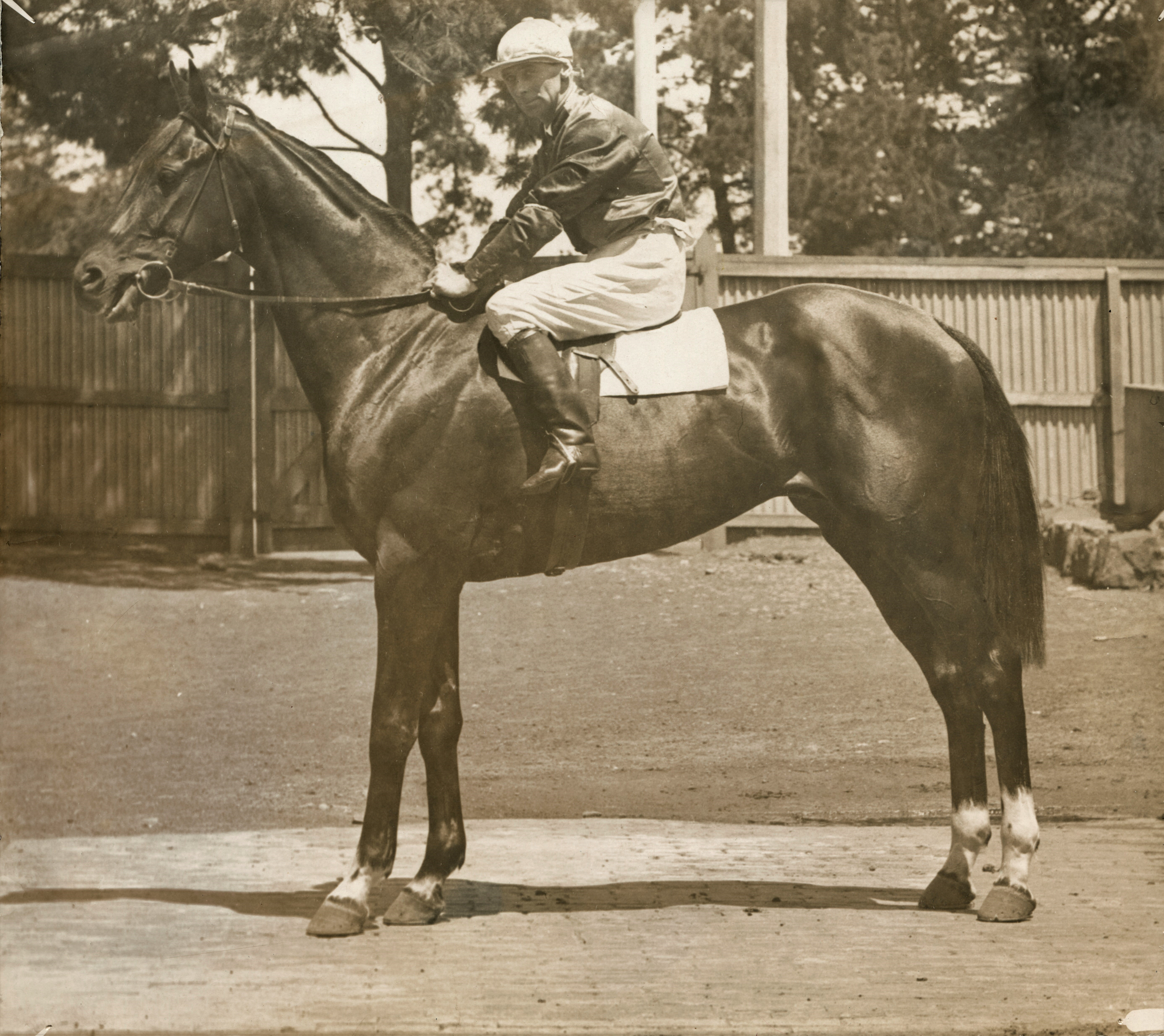 Biplane 1917 AJC & VRC Derby winner scanned from original photo